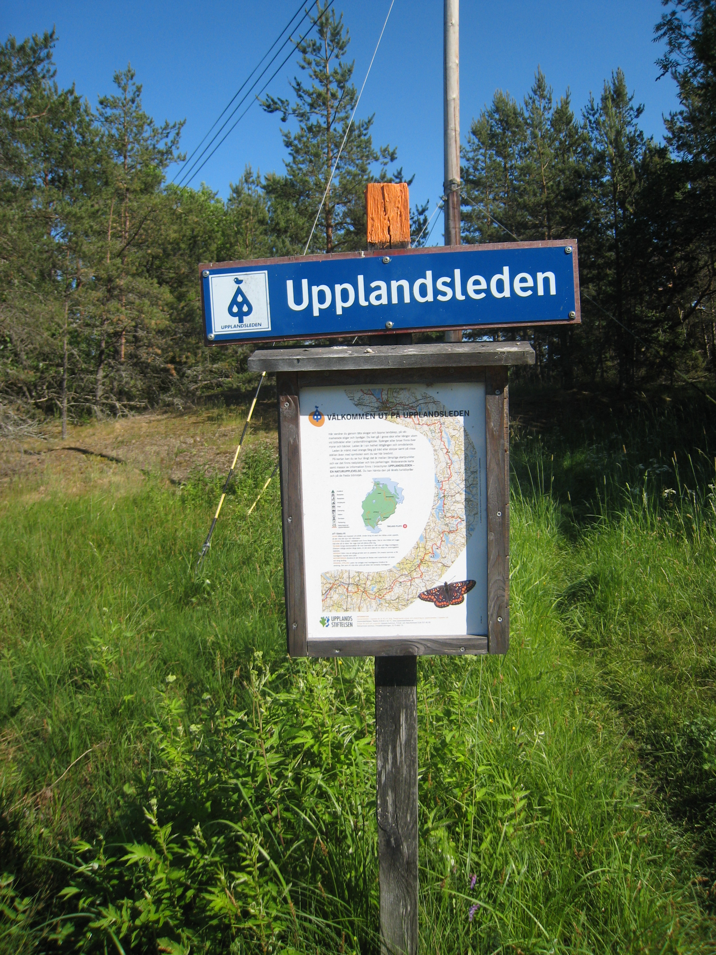 Signpost at the walking trail Upplandsleden, Sweden